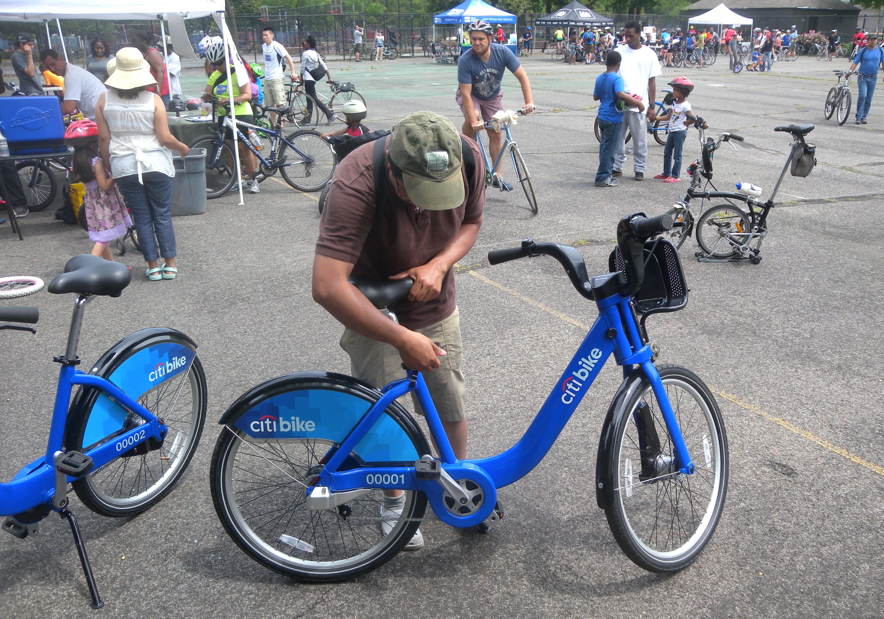 Looking east at Citibikes #00001 and 00002 in Commodore Barry Park on a sunny afternoon.